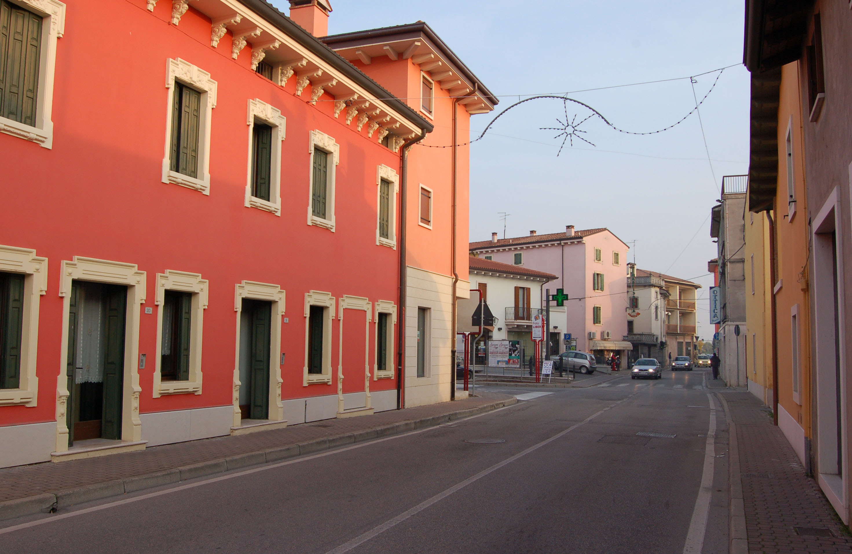 Street of Lugagnano, province of Verona